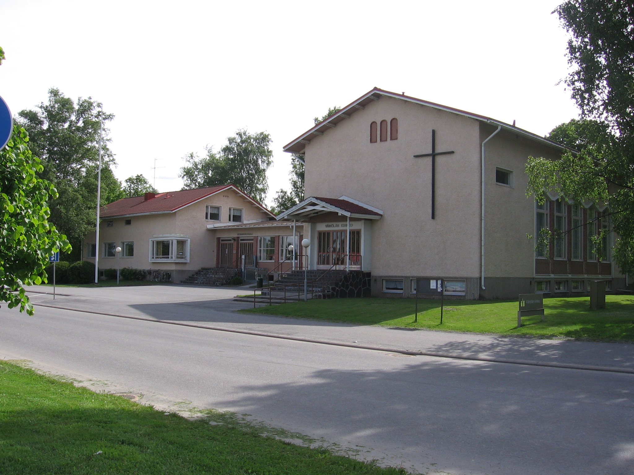 Väinölä Church in Pori, Finland.